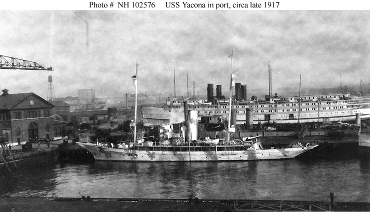 United States Navy armed yacht USS Yacona (SP-617) at the Boston Navy Yard in Boston, Massachusetts, ca. December 1917